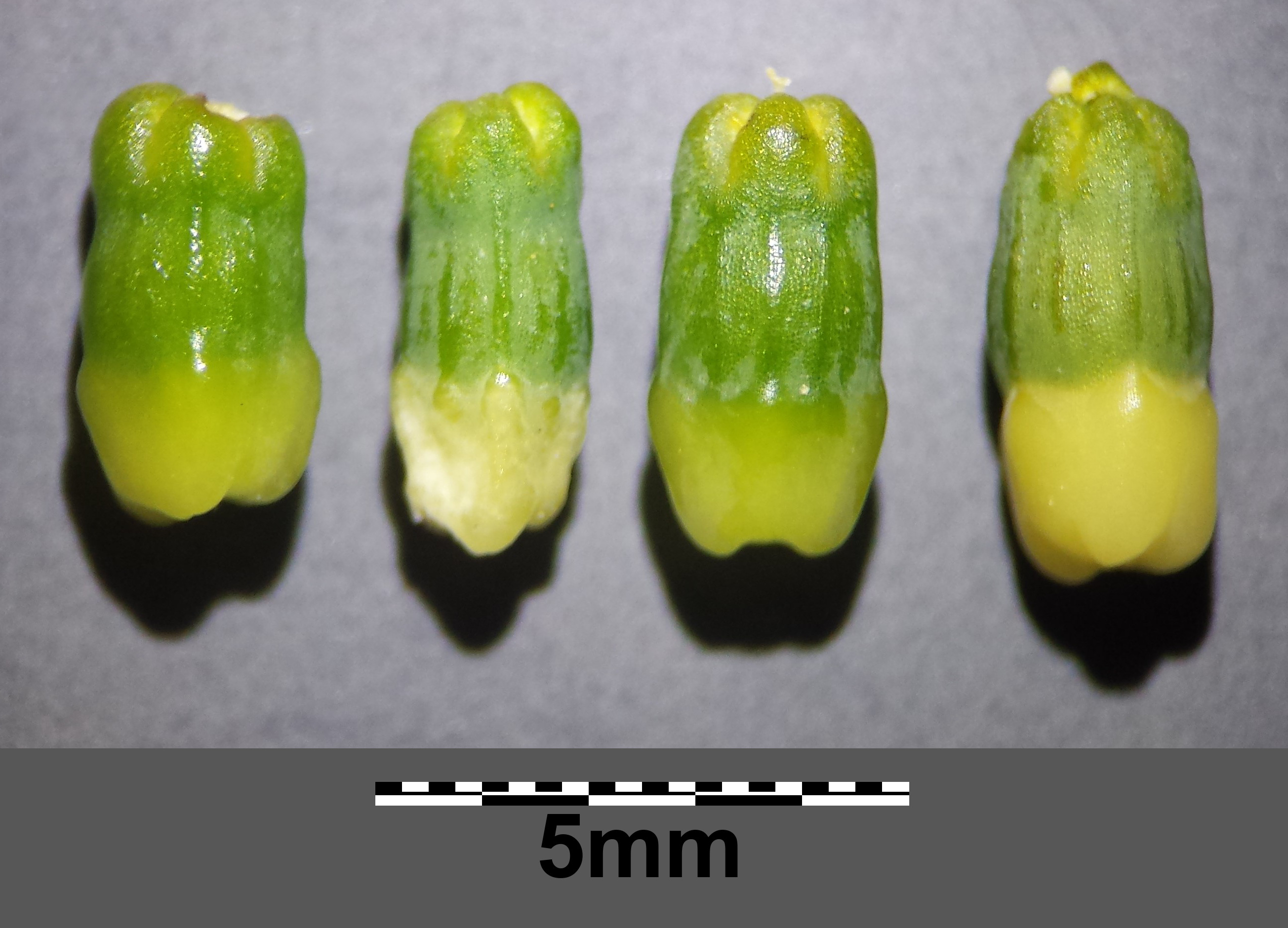 Fruits with elaiosoms Taxonym: Thesium linophyllon ss Fischer et al. EfÖLS 2008 ISBN 978-3-85474-187-9 Location: Steinberg near Niederhollabrunn, district Korneuburg, Lower Austria - ca. 375 m a.s.l. Habitat: semi-dry grassland